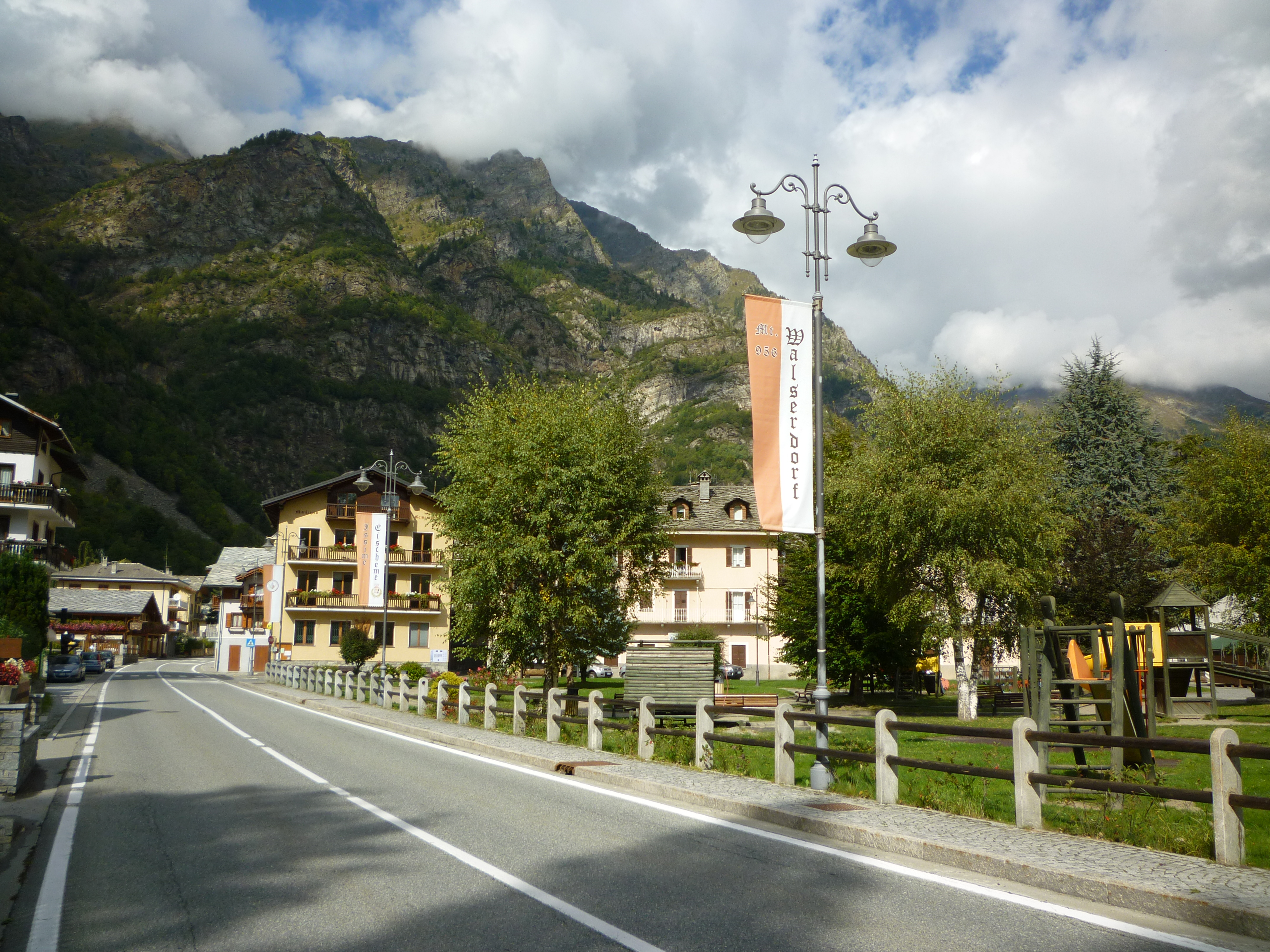 Issime (Aosta Valley, Italy)